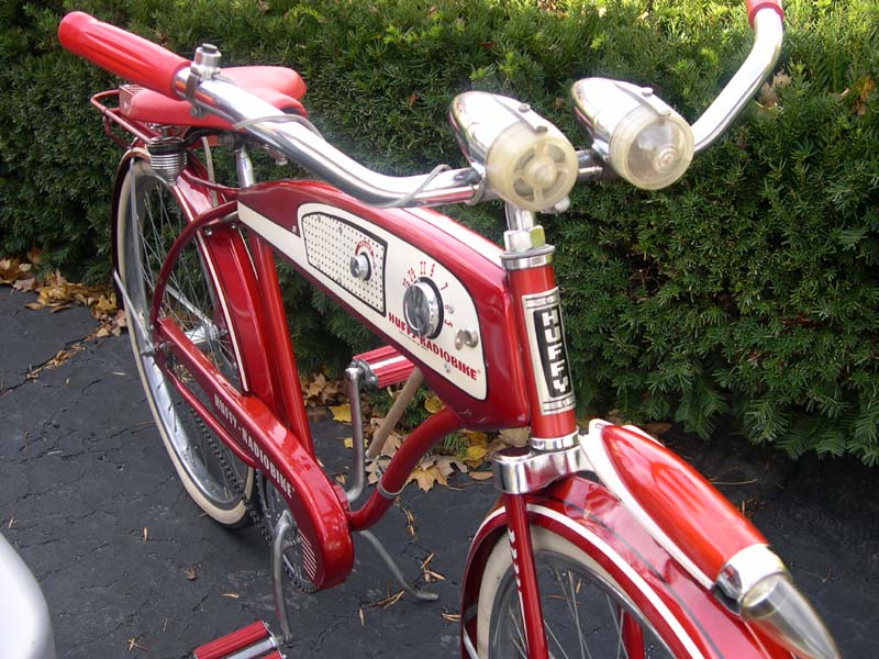 The Huffy Radio Bike was produced in 1955-56 by the Huffman Manufacturing Co. in Dayton, Ohio. The number of sold red, blue and green bicycles with AM radios was estimated around 8,500 units as they were very popular among boys.